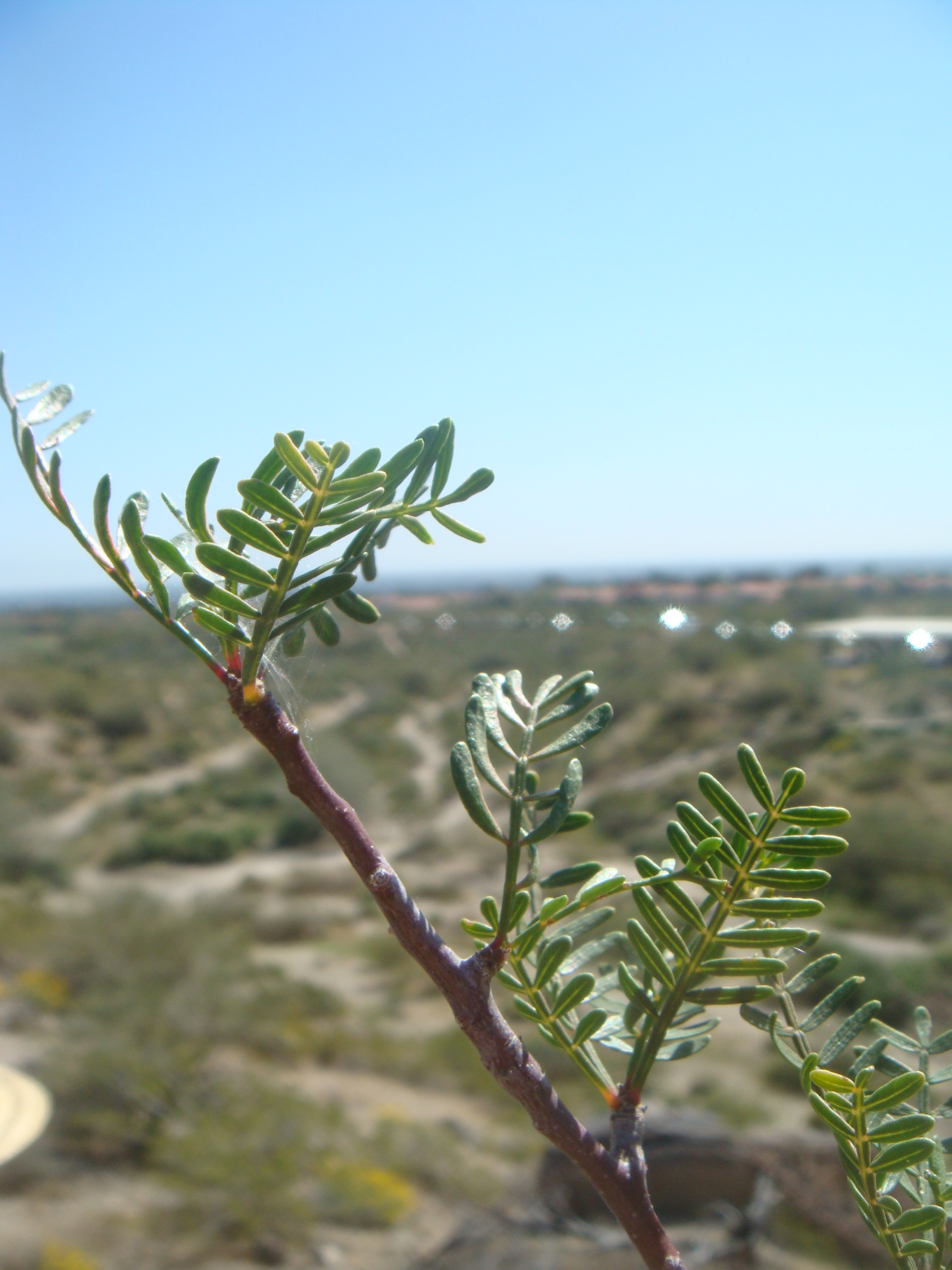 Bursera microphylla, South Mountain, Phoenix, Arizona